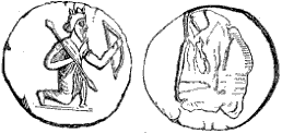 The large daric of silver (Plate II., Figure 3) is not earlier than the time of Cambyses. The name of the coin has been by some supposed to be derived from Darius, by others from an old Persian word signifying royalty. It is interesting as being one of the early coins named in the Bible.